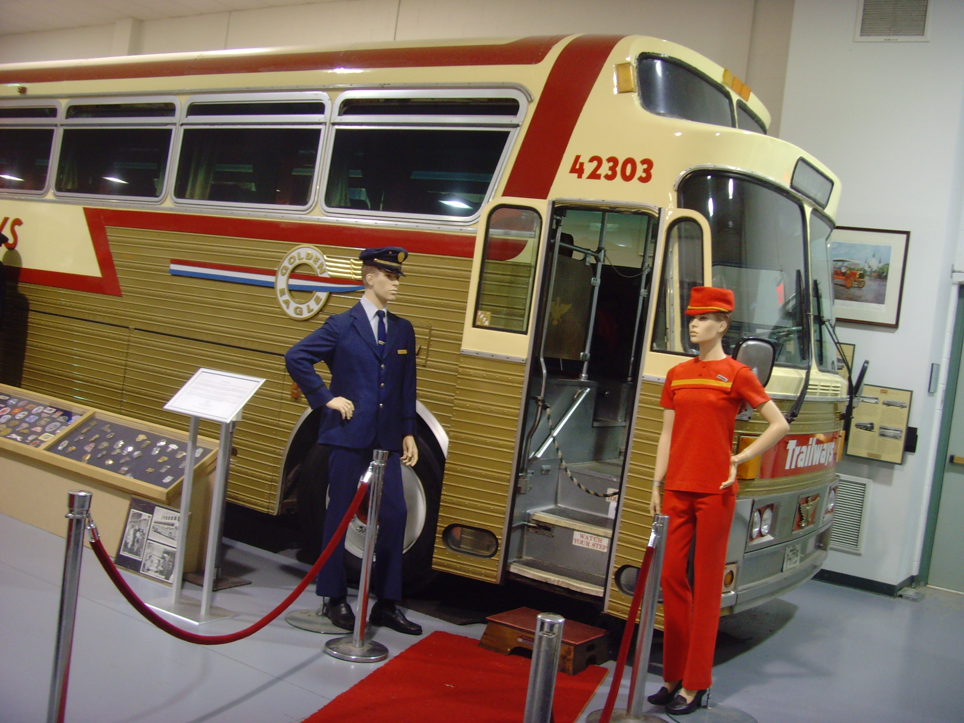 0171 Hershey - Antique Automobile Club of America Museum - Bus Museum